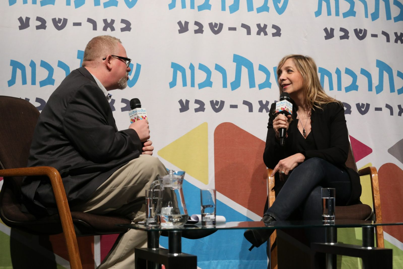 Emi Palmor interviewed by Roy Katz at Shabatarbut event in Be'er Sheva